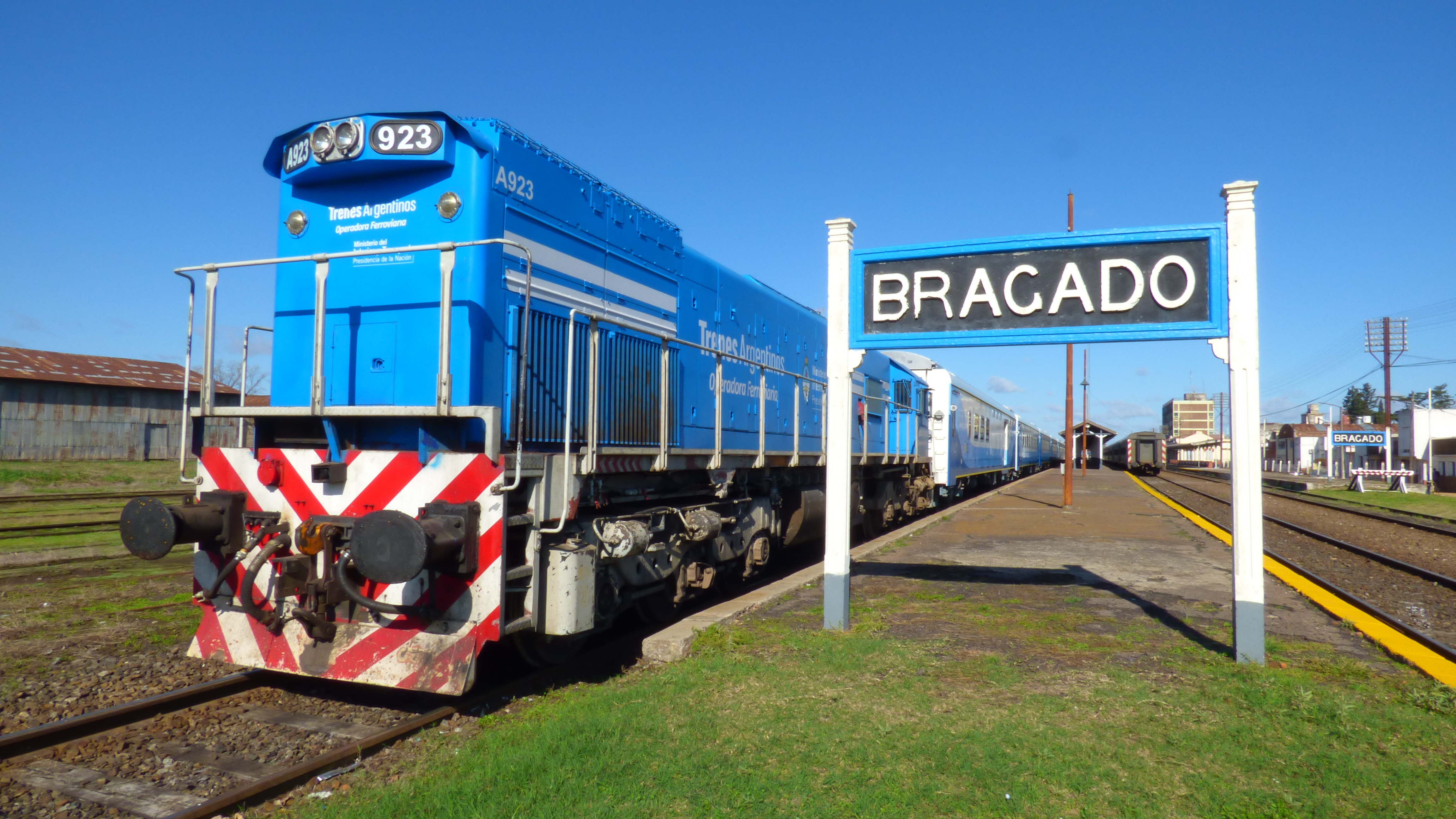 Passenger train at Bragado railway station.